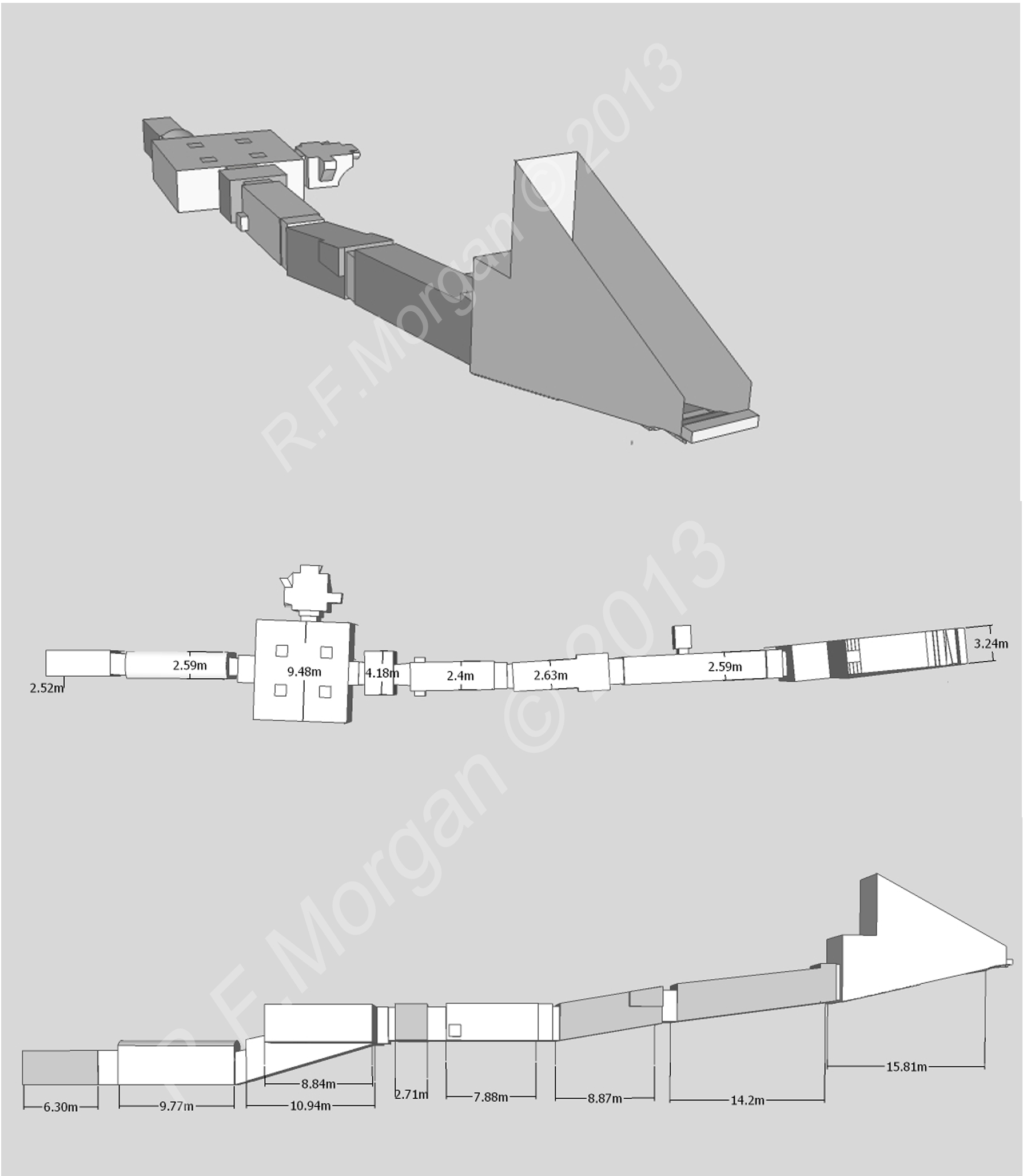 Isometric, plan and elevation images of KV10 taken from a 3d model